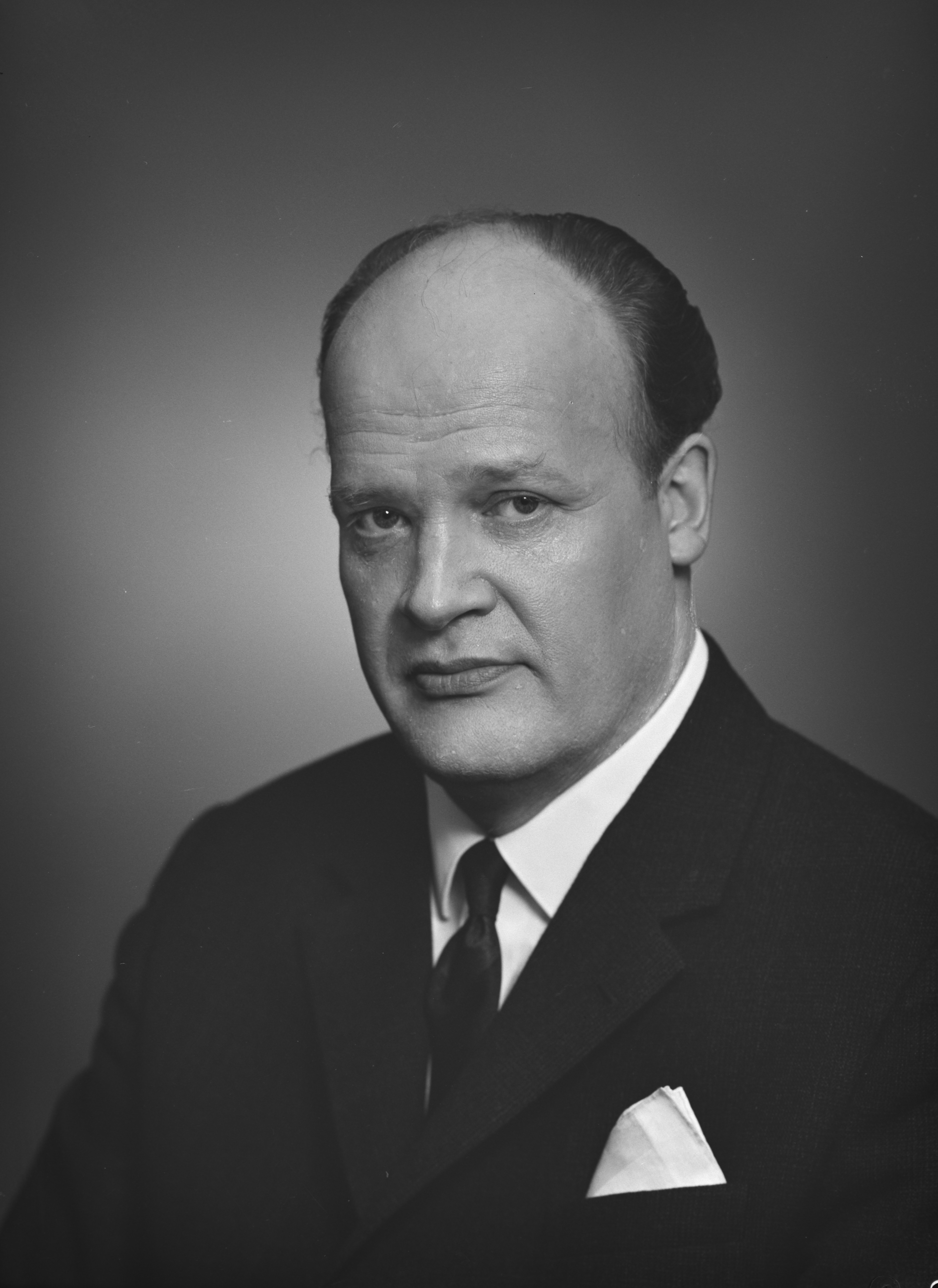 Photograph of the Finnish politician Esko Kulovaara (1915–2009).